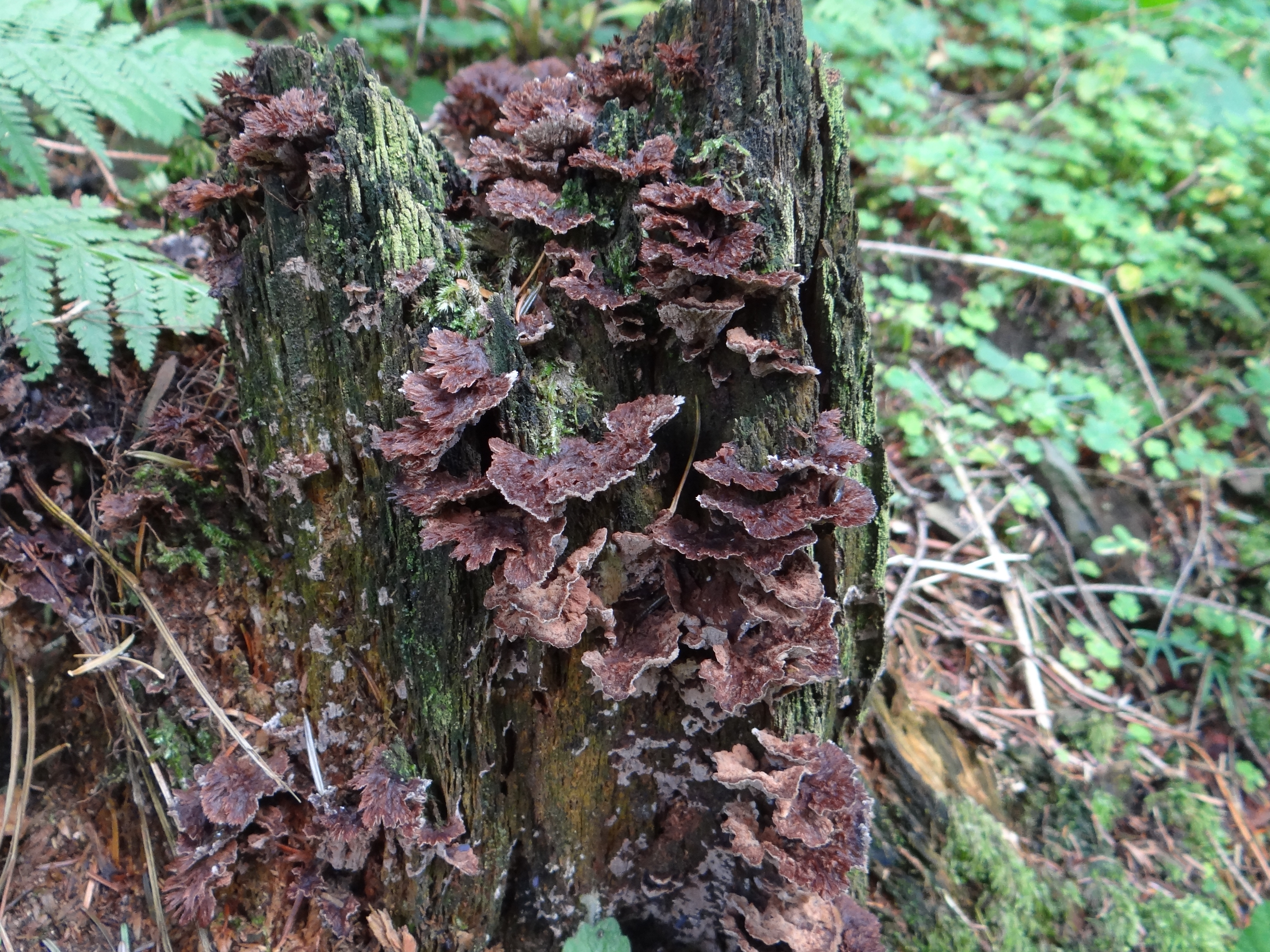 Thelephora terrestris